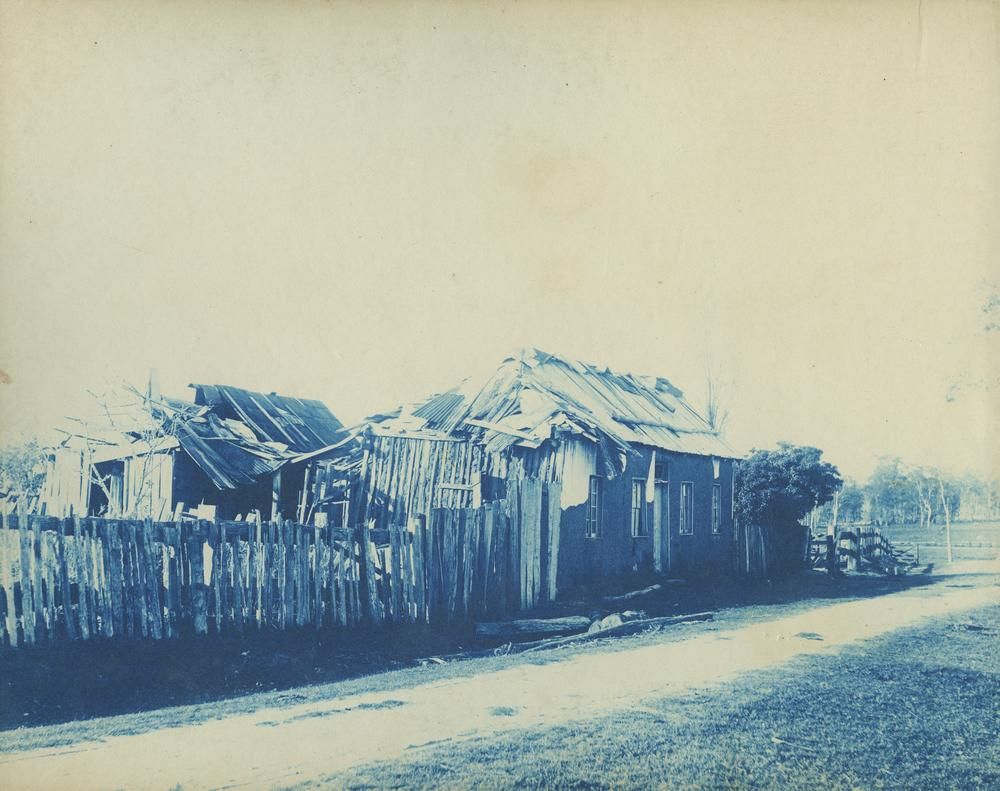 The final remaining missionary cottages of the Zion Hill Mission in Nundah. The mission was established in 1838, this cyanotype image is from around 1895.